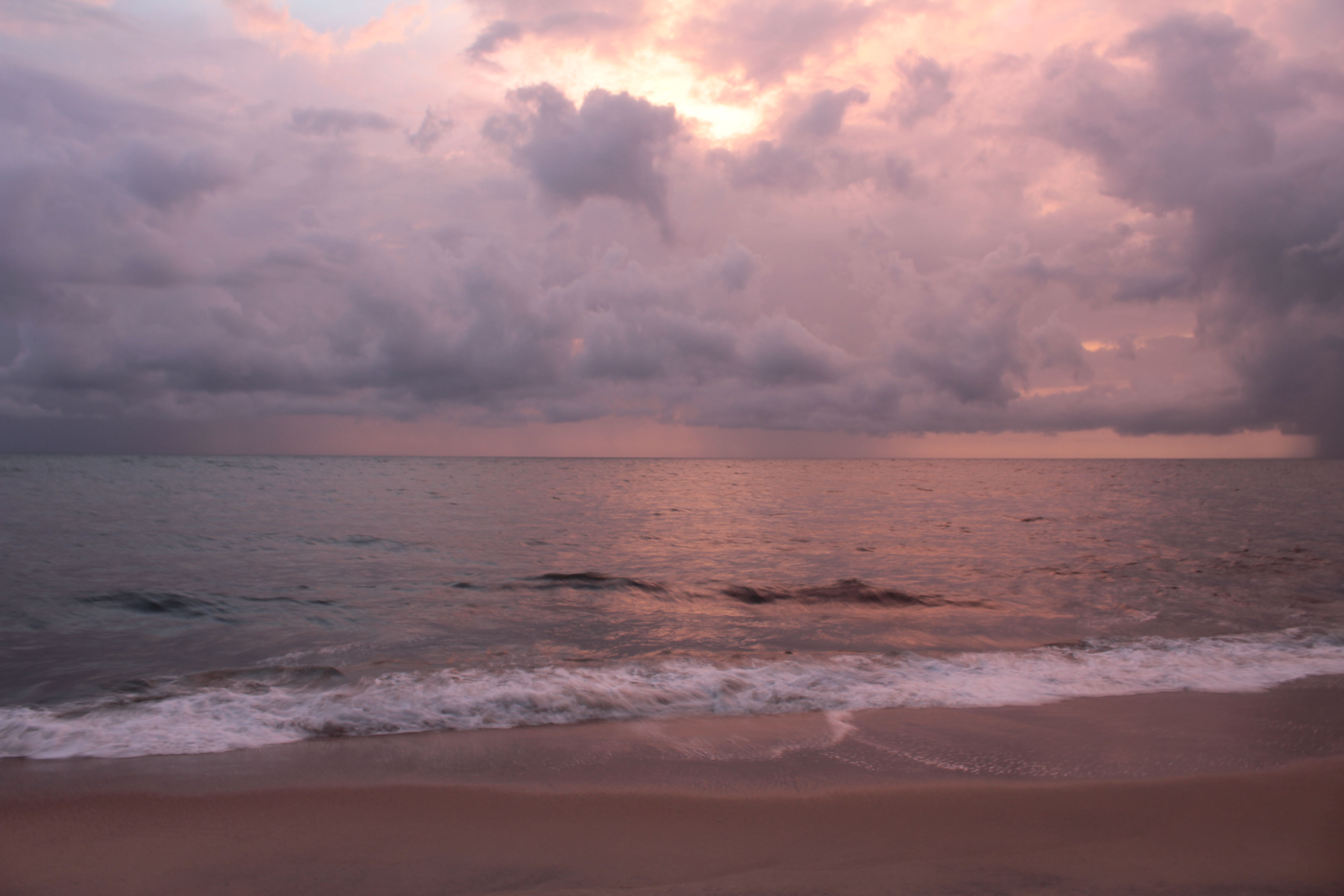 Sunset at the pristinely beautiful Marari beach